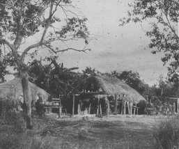 Seminole dwelling.